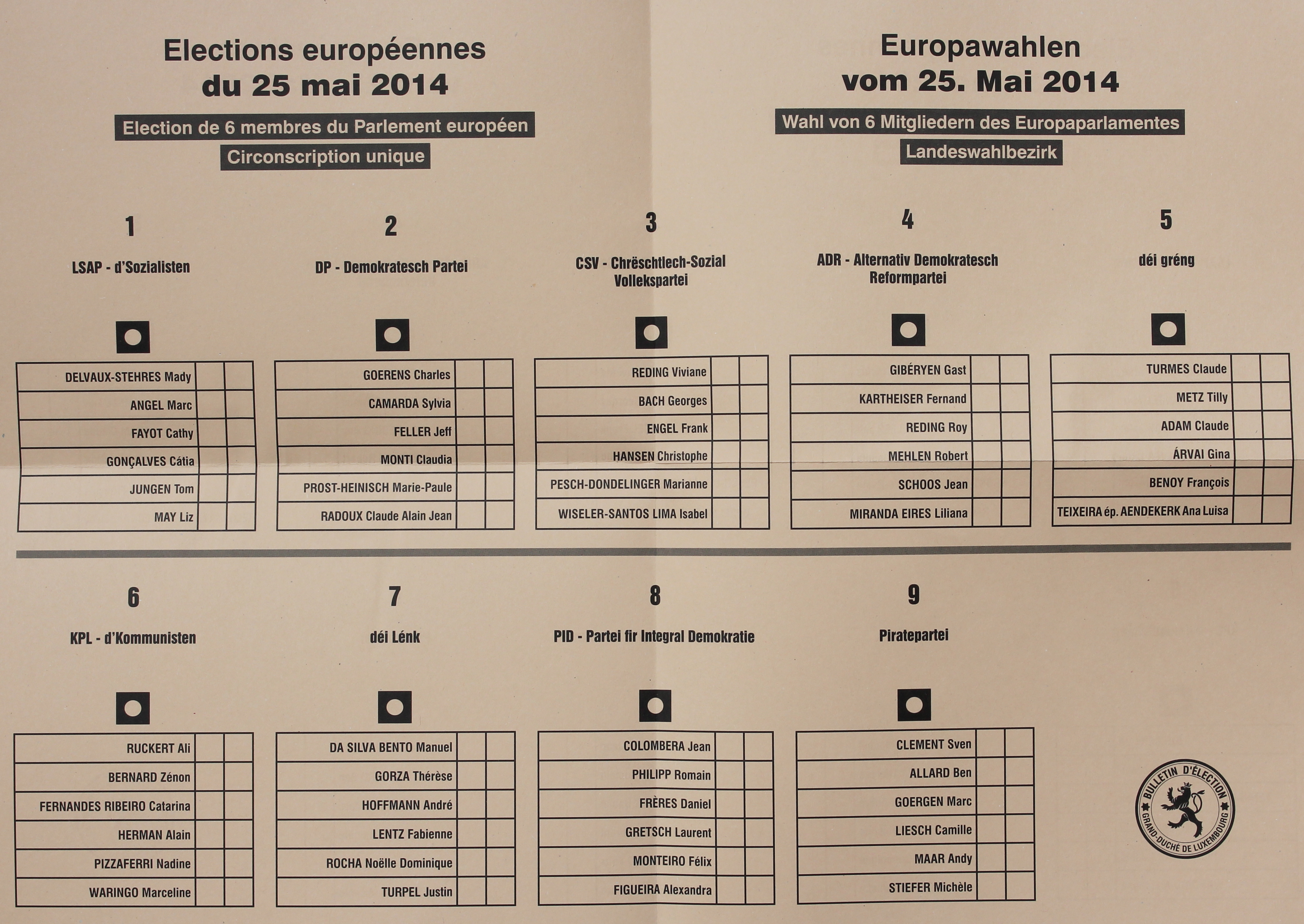 Ballot paper for the 2014 European Parliament elections in Luxembourg.Explanation: Every voter can cast a maximum of 6 votes. This can be either by ticking the box on top of one list (which gives one vote to each of the 6 persons on that list), or by distributing the maximum 6 votes to any candidates on the ballot paper (which can be in the same or in different lists). Note that each candidate can get a maximum of 2 votes; so the distribution of one ballot paper could be for example: 2 votes for candidate A on list 1, 1 vote for candidate B on list 1, 1 vote for candidate C on list 2, 1 vote for candidate D on list 2, and 1 vote for candidate E on list 3.